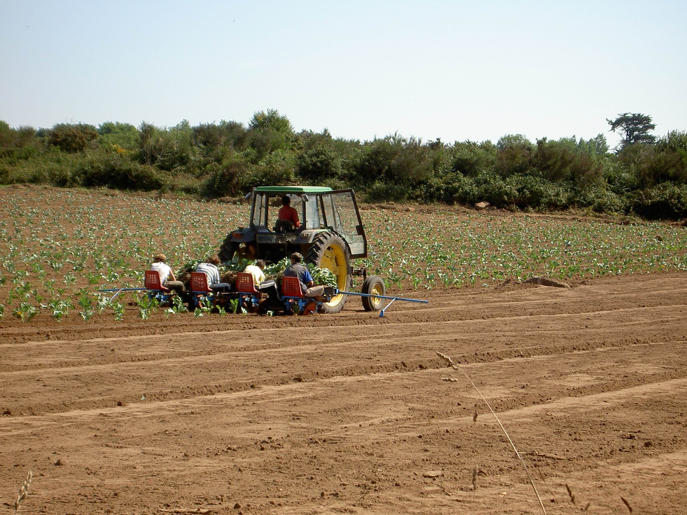 artichoke